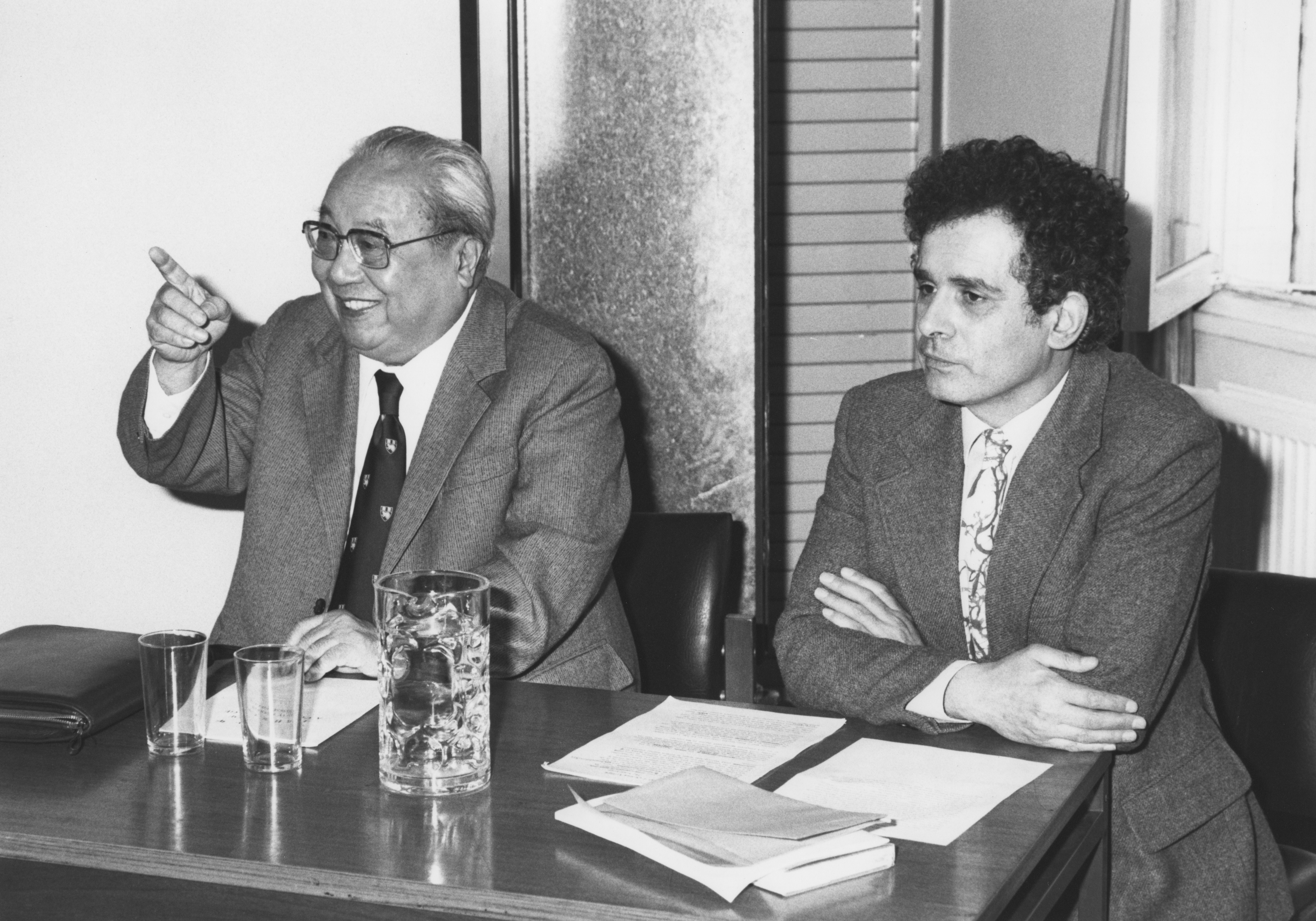 Anthropology Department IMAGELIBRARY/309 Persistent URL